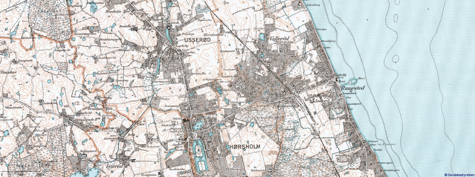 Rungsted 1947